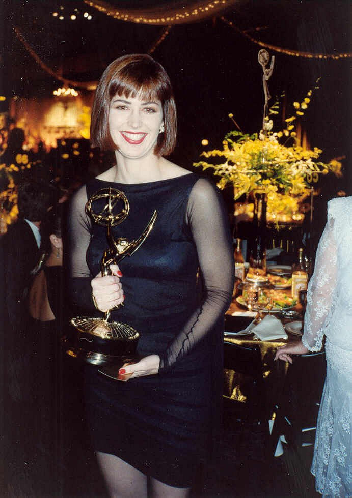 Dana Delany Photo taken at the 41st Emmy Awards 9/17/89 - Permission granted to copy, publish or post but please credit "photo by Alan Light" if you can